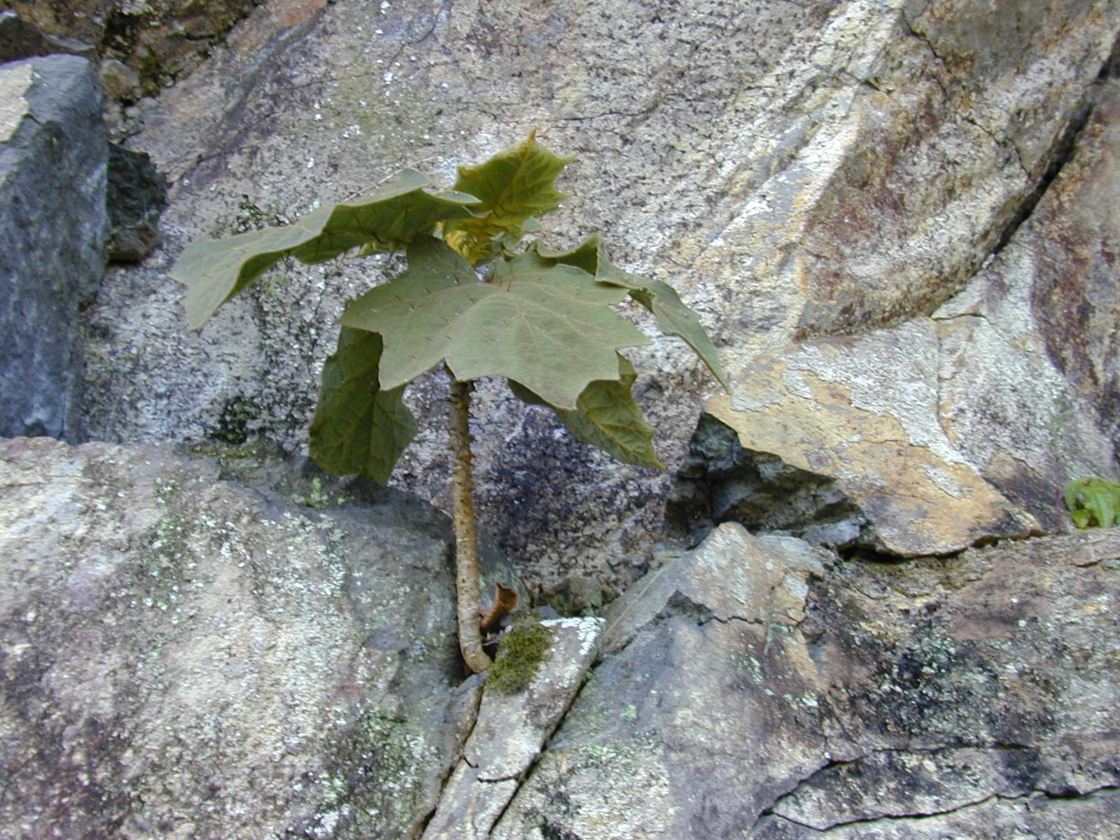 Solanum robustum (small plant on steep rock bank). Location: Maui, Papahaiea